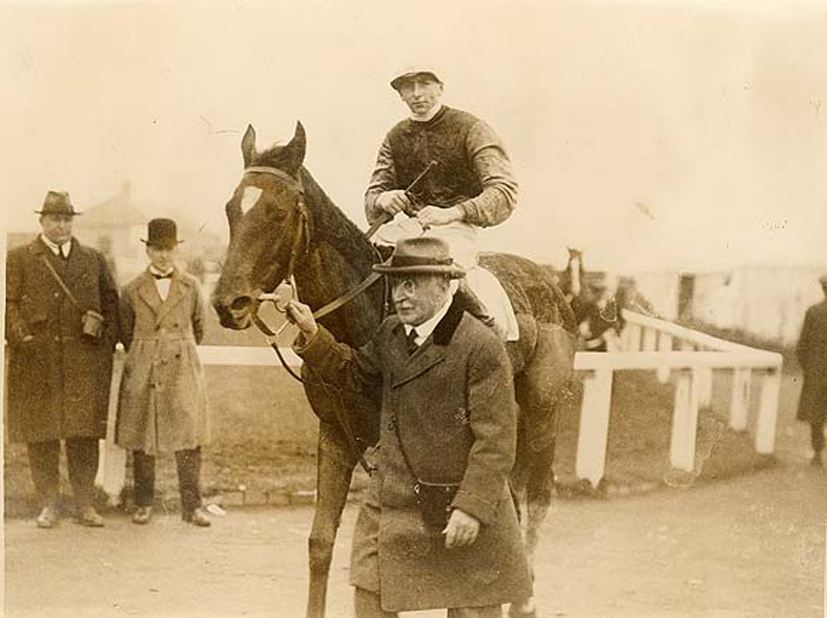 This is Clonespoe, the winning horse in the Irish Cambridgeshire at the Curragh Racecourse in Co. Kildare. Clonespoe was owned by Limerick man, N.J. Grene, and was trained at Patrickswell by R. Moss. The jockey was J. Moylan. The Irish Cambridgeshire was a handicap race over one mile, and the purse was 650 sovereigns for the winner (50 sovereigns for 2nd; 30 sovereigns for 3rd). Clonespoe won by a length. To those in the know, it sounds as if Clonespoe had a fine lineage - by Prince Hermes, dam by Sir Edgar, Lady Norah Date: 2.10 p.m. on Wednesday, 19 November 1924 NLI Ref.: HOG217